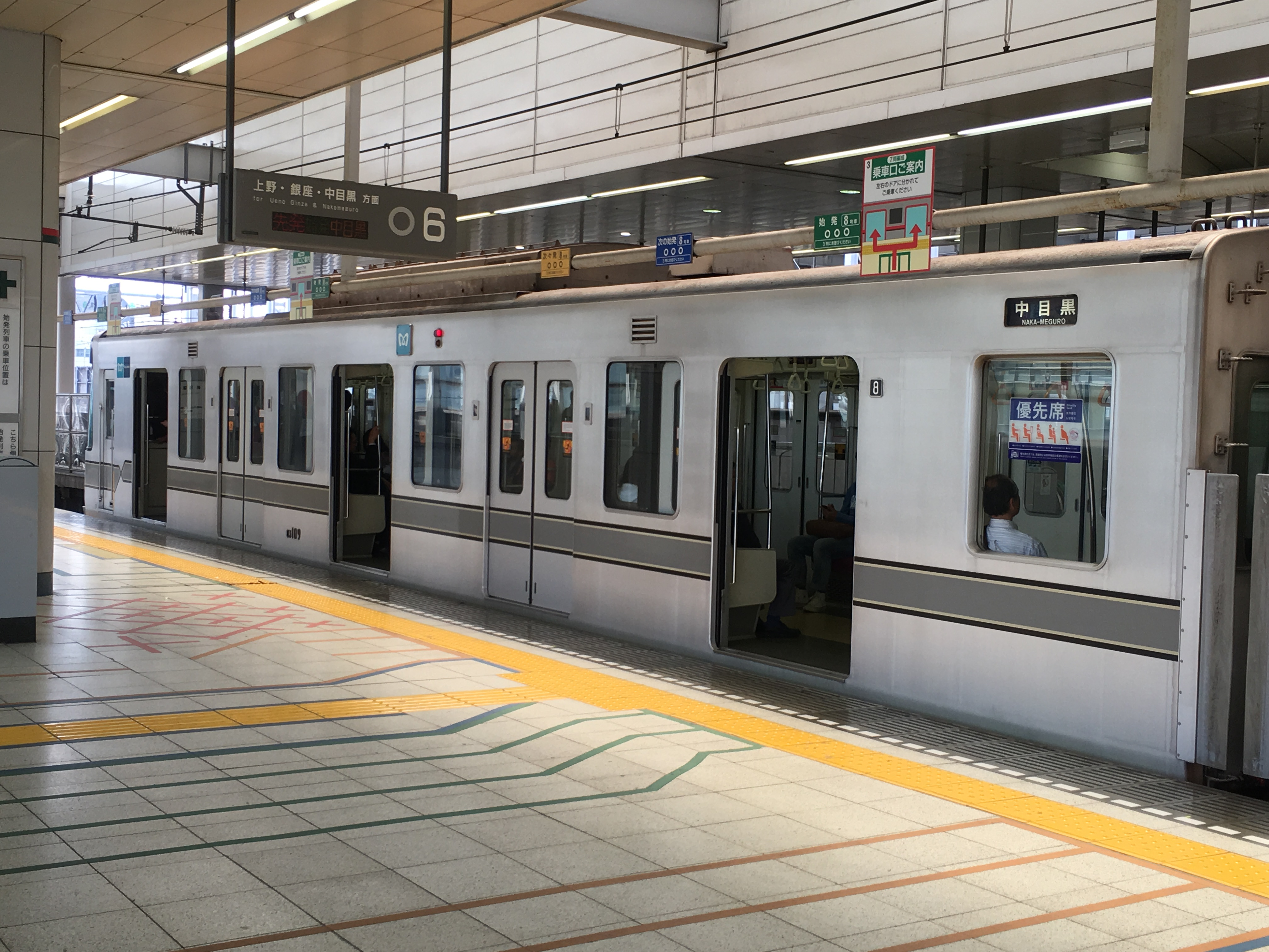 Car 03-109 of Tokyo Metro Hibiya Line 03 series EMU set 109 at Kita-Senju Station with only three out of the five doors open